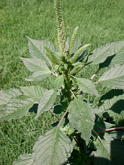 Amaranthus palmerii, pigweed, photographed in Phoenix, Arizona